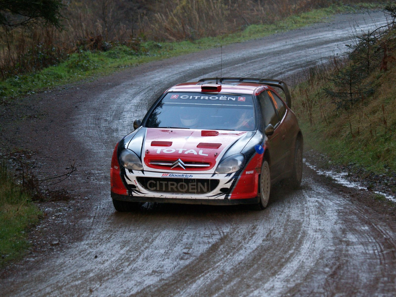 Conrad Rautenbach driving his Citroën Xsara WRC during 2007 Wales Rally GB.